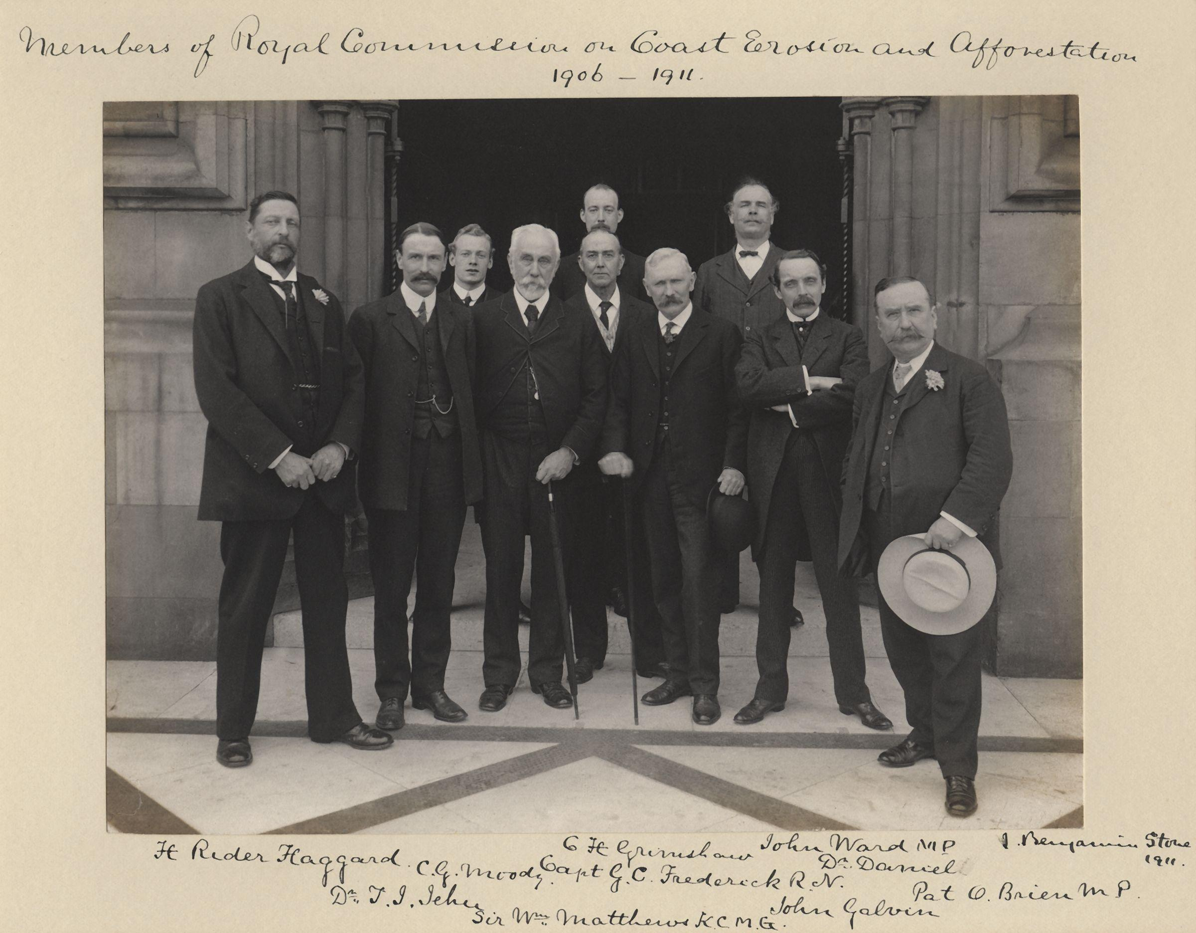 Members of the Royal Commission on Coast Erosion and Afforestation, 1906-1911, by Sir (John) Benjamin Stone (died 1914), given to the National Portrait Gallery, London in 1974. All images in this batch have been confirmed as author died before 1939 according to the official death date listed by the NPG.